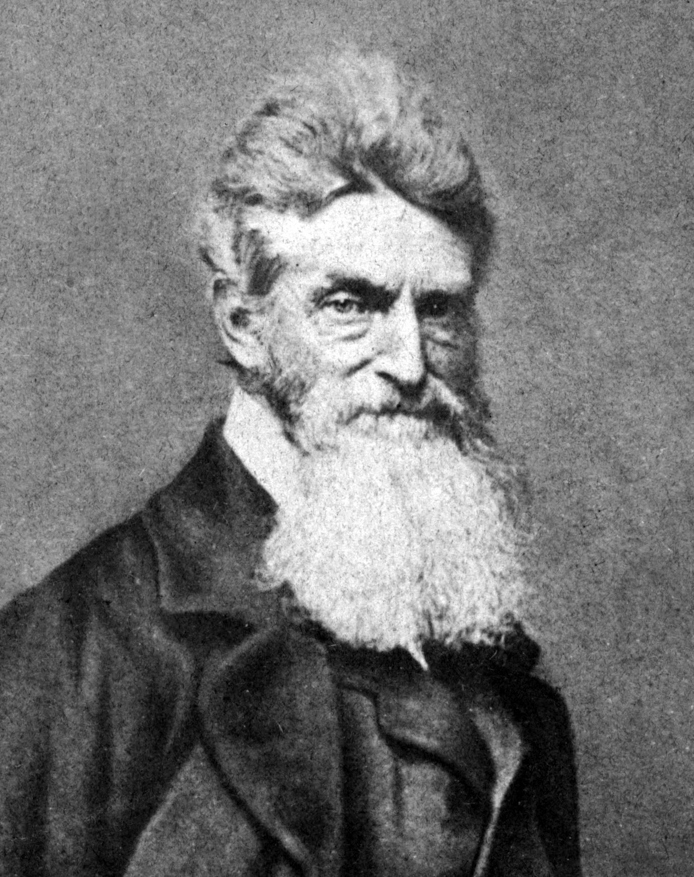 Salt print, cropped from three quarter length portrait of John Brown. Reproduction of daguerreotype attributed to Martin M. Lawrence.